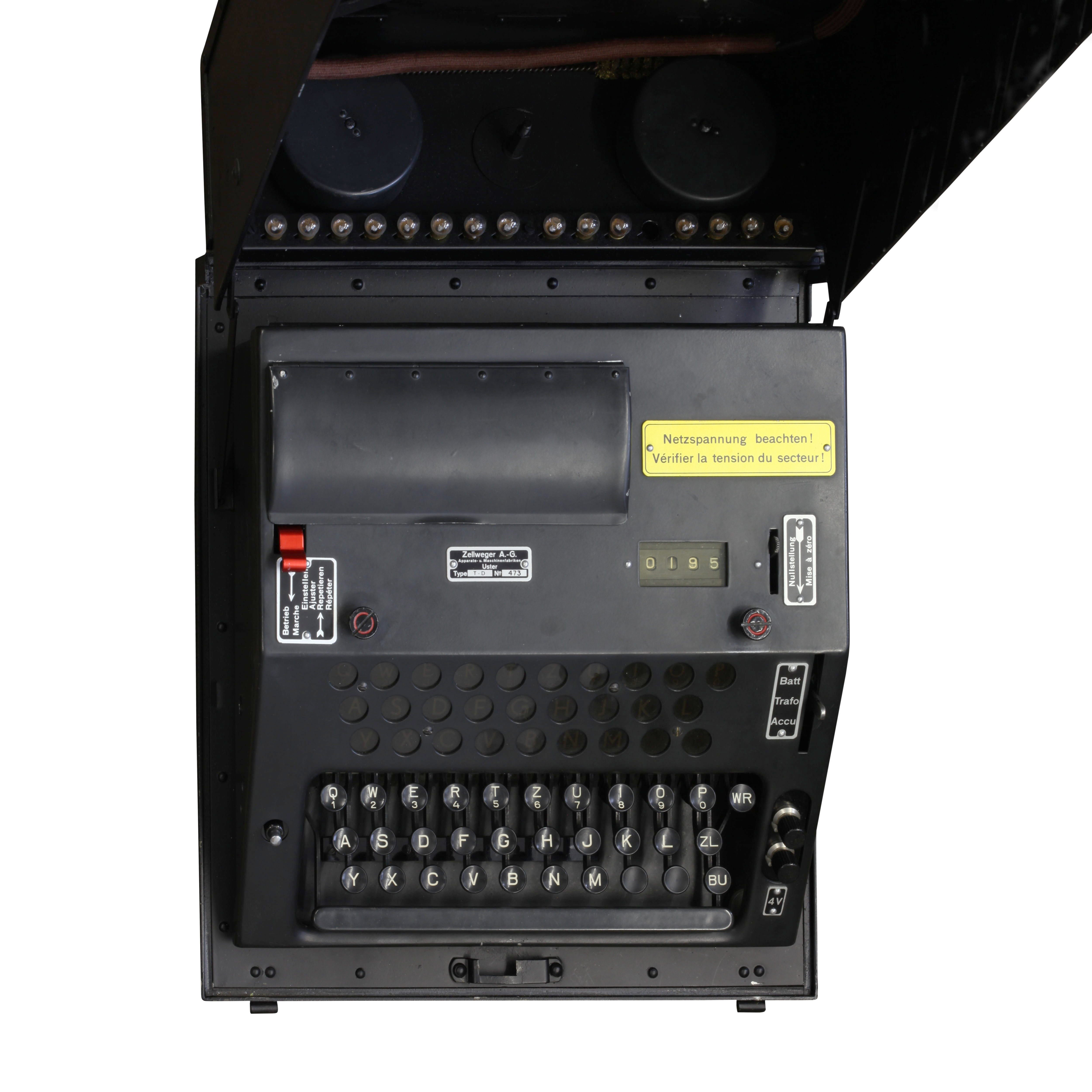 The NEMA, cryptographic machine used by the Swiss Army from 1947. Cryptography collection of the Swiss Army headquarters The making of this document was supported by Wikimedia CH. (Submit your project!) For all the files concerned, please see the category Supported by Wikimedia CH.